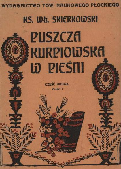 A front page of "Puszcza Kurpiowska w pieśni" by Władysław Skierkowski